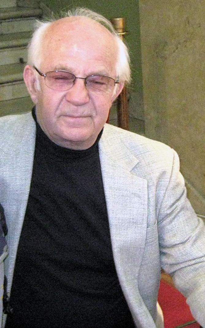 Polish film director Jerzy Antczak.